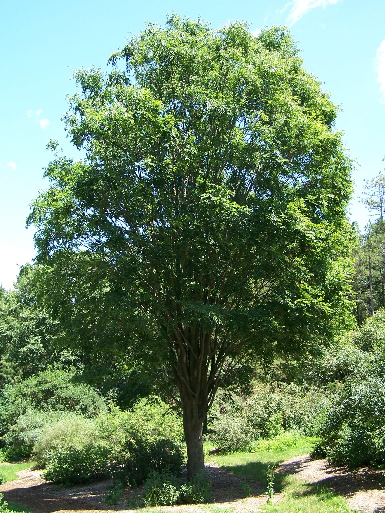 Zelkova serrata, commonly called "Japanese Zelkova". 53-year-old specimen at Morton Arboretum; acc. 10-54-1